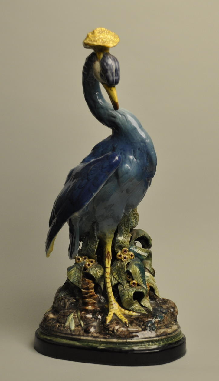 Freeman-Liedy California Pottery bird